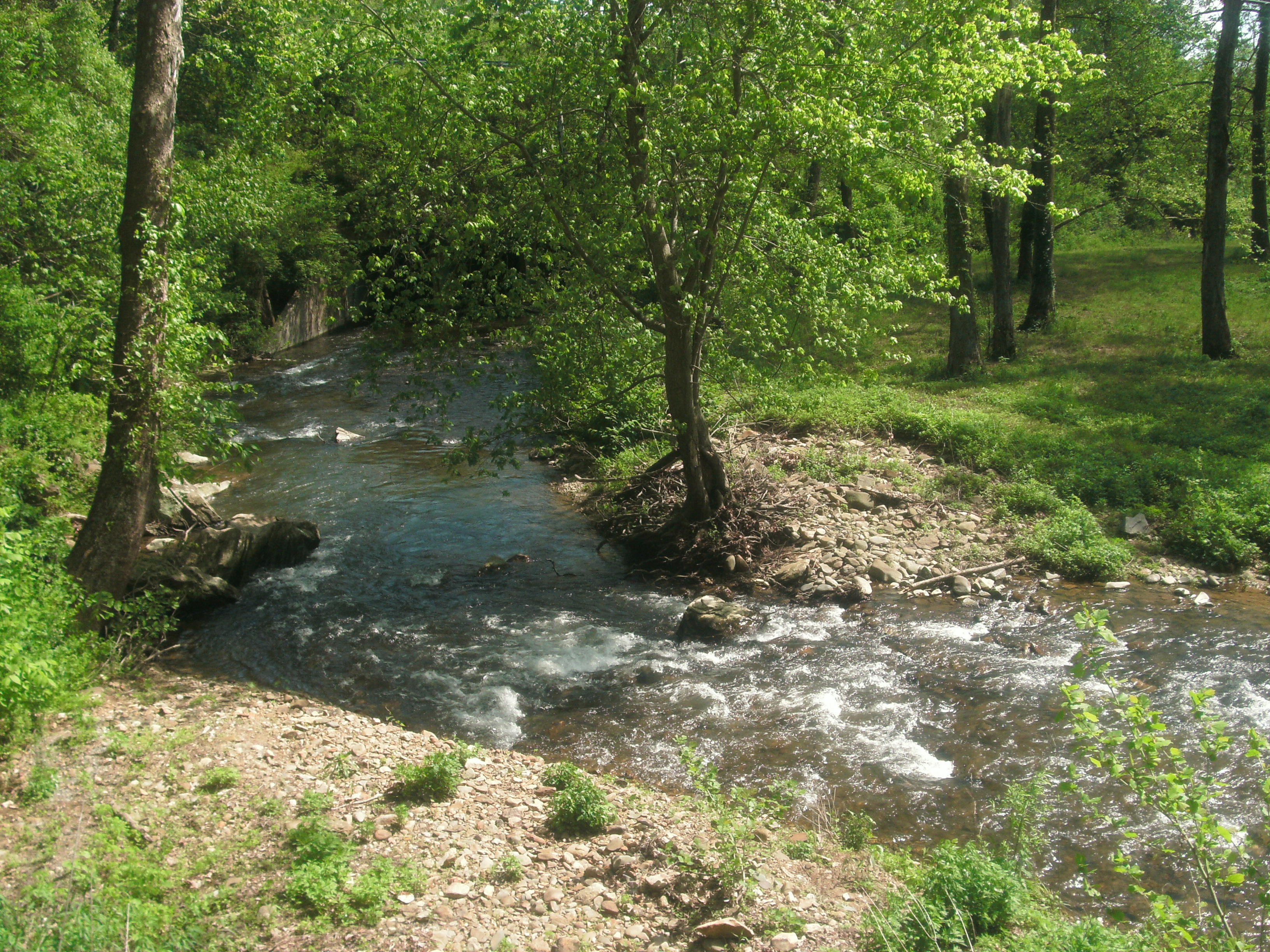 Taken by me in May, 2016 GEDSC DIGITAL CAMERA